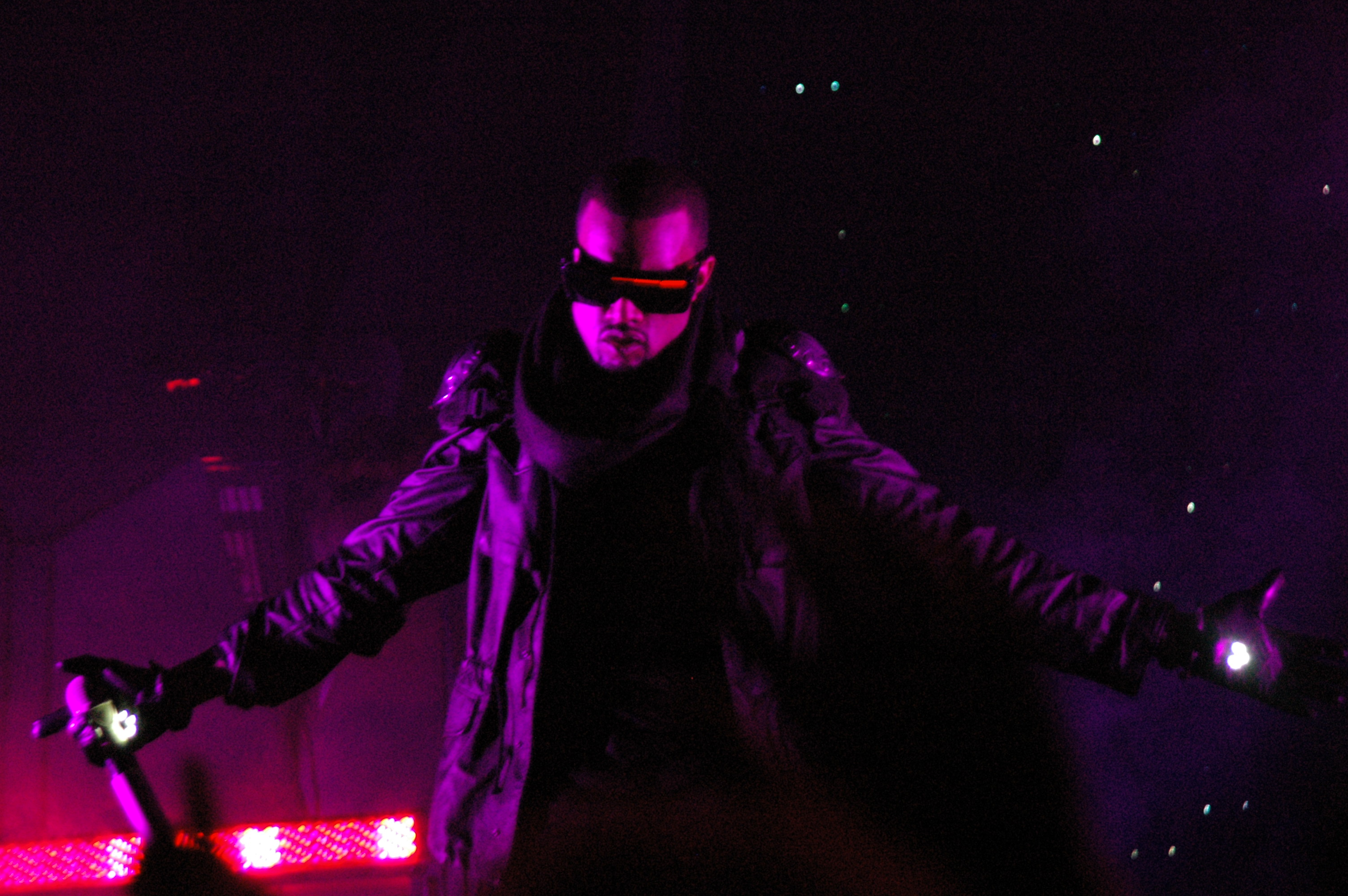 Kanye West performing at The O2 Arena on November 22, 2007 in London, England.